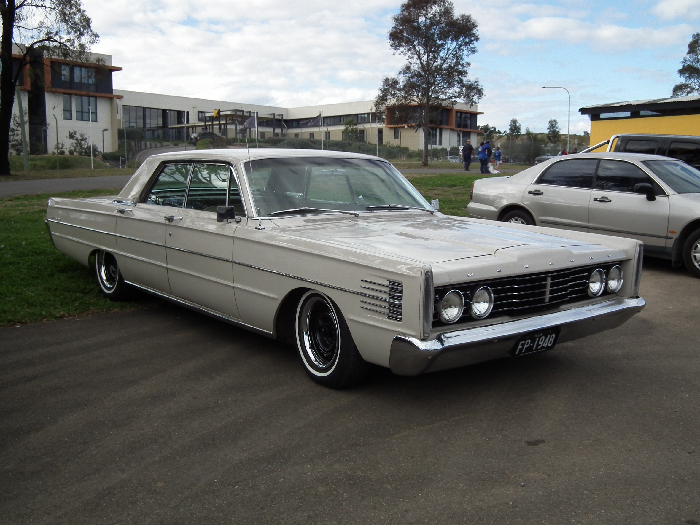 1965 Mercury Montclair Marauder hardtop sedan. Taken in the car park at the 2012 New South Wales All Ford Day, held at Sydney Motorsport Park (formerly Eastern Creek Raceway).